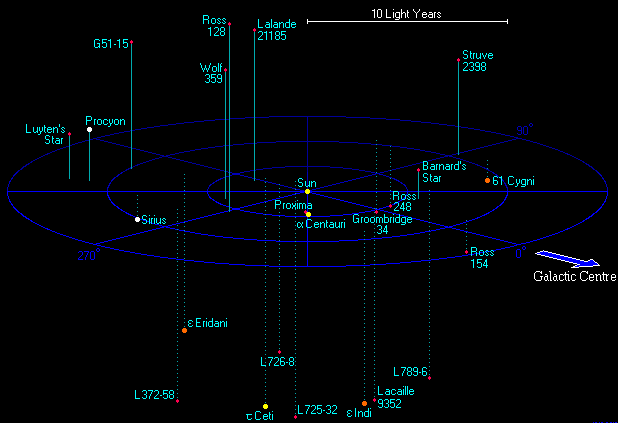 There are 33 stars within 12.5 light years from the Sun